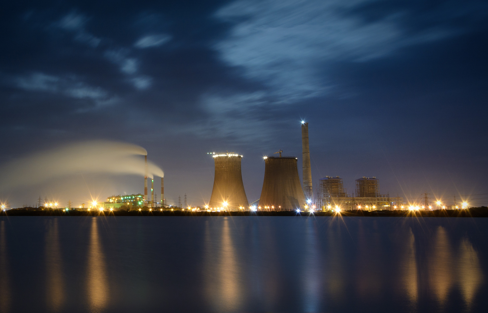 One more snap of a thermal plant in Tamil Nadu, India. Any Comments Please Contact [1]